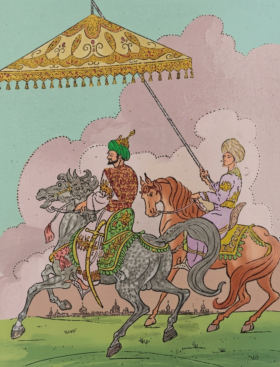 Drawing of the Fatimid caliph Al-ʿĀḍid li-Dīn Allāh, on his horse back, followed by his servant who is shading him.